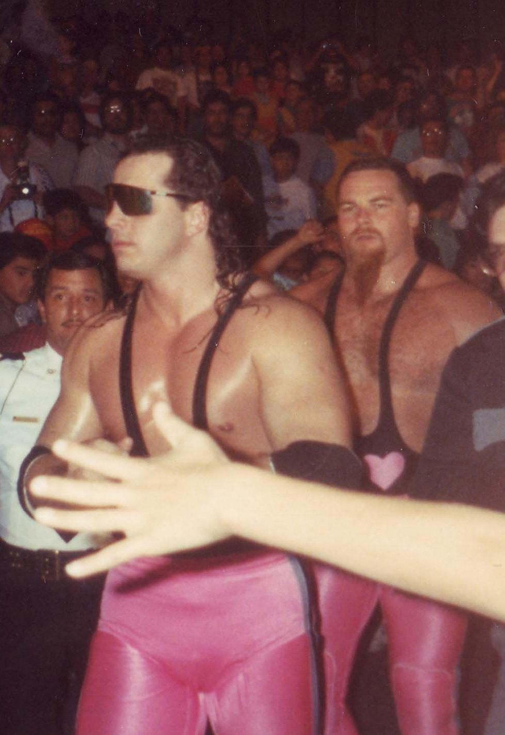 Professional wrestling tag team The Hart Foundation - Bret "The Hitman" Hart and Jim "The Anvil" Neidhart